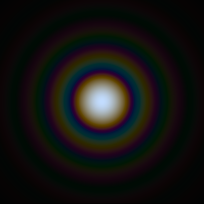 Airy disk and pattern from diffracted white light (D65 spectrum). The color stimuli have been calculated in the CIE 1931 color space and then converted into sRGB. Apart from the sRGB definition there is a moderate additional gamma correction of 0.7 0.8 to enhance brightness in the outer rings. This may cause a slight but acceptable distortion in colours, however.